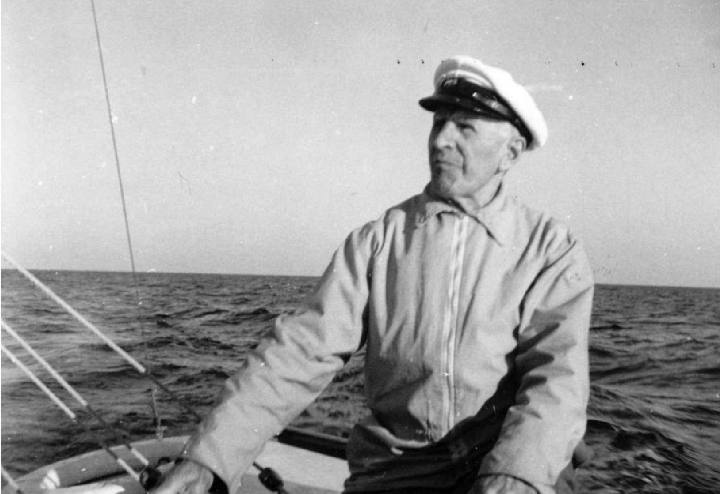 Danish naval ship architect Oscar Wilhem Dahlstroem